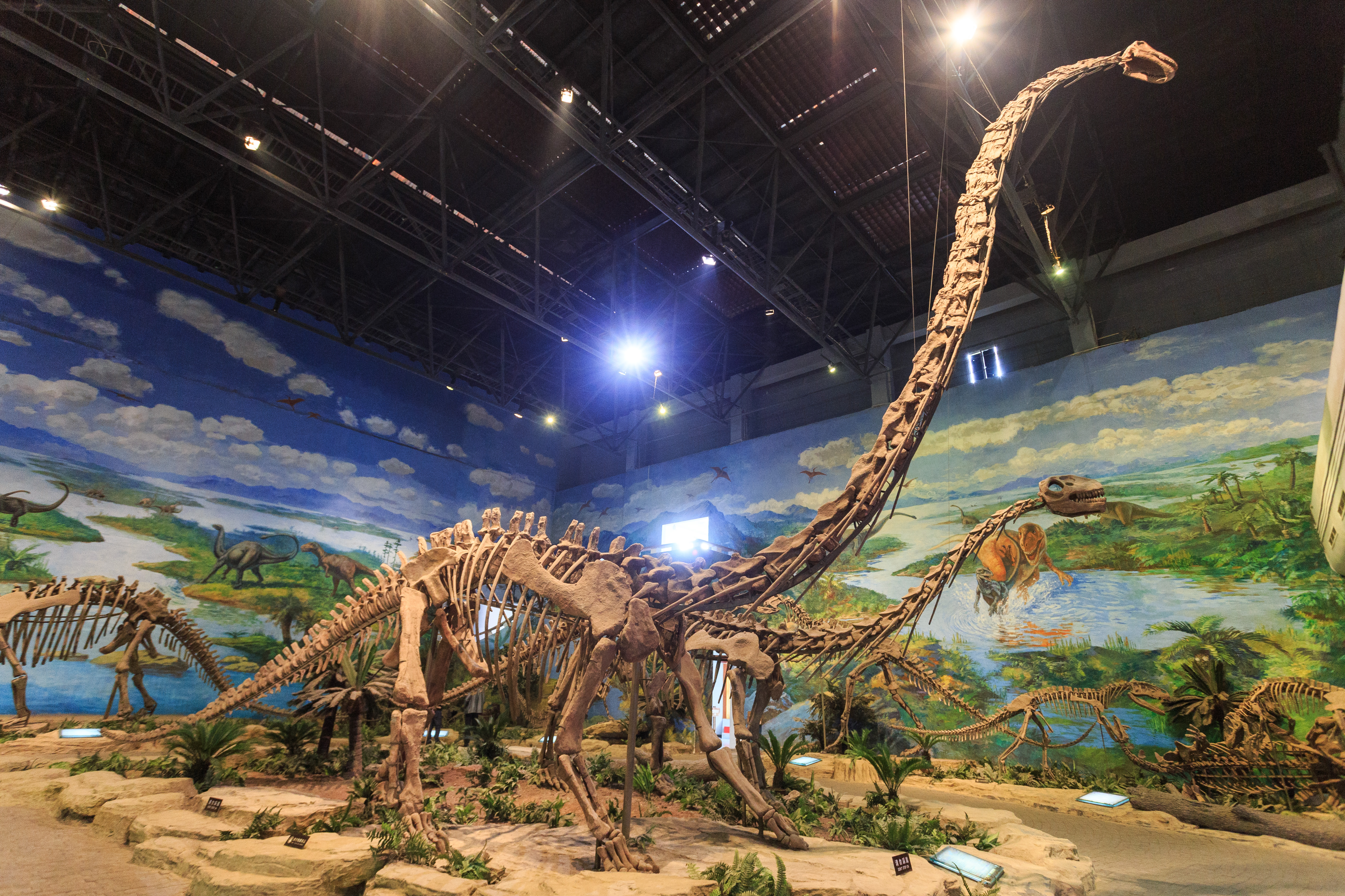 Mamenchisaurus hochuanensis. （The front dinosaur） Symtemtic position: Mamenchisauridae, Sauropodomorpha, Saurischia Locality: Hongqi, Zigong, Sichuan, China. Age: Late Jurassic (about 150 million years ago). An extra large long-necked sauropod dinosaur up to 20m long. Its elongated neck consists of 19 cervical vertebrae. It is a dinosaur taxon with the most cervical vertebrae.